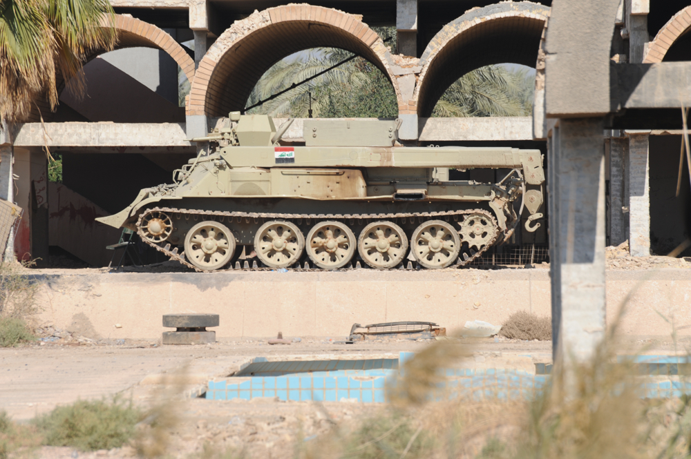 Iraqi WZT-2 outside of a building in the city of Salman Pak, Iraq.